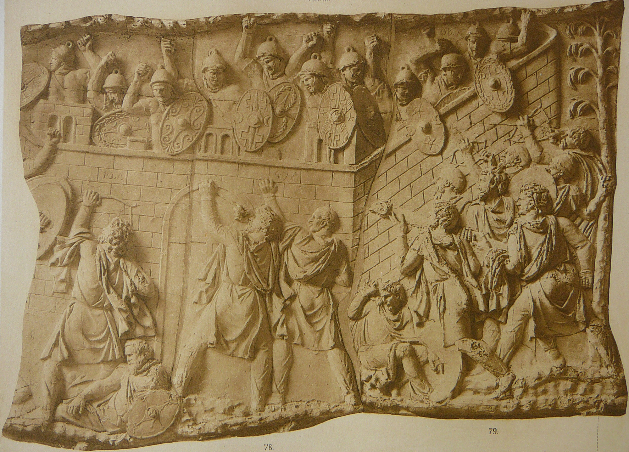 Assault on a Roman fort (scene XXXII)